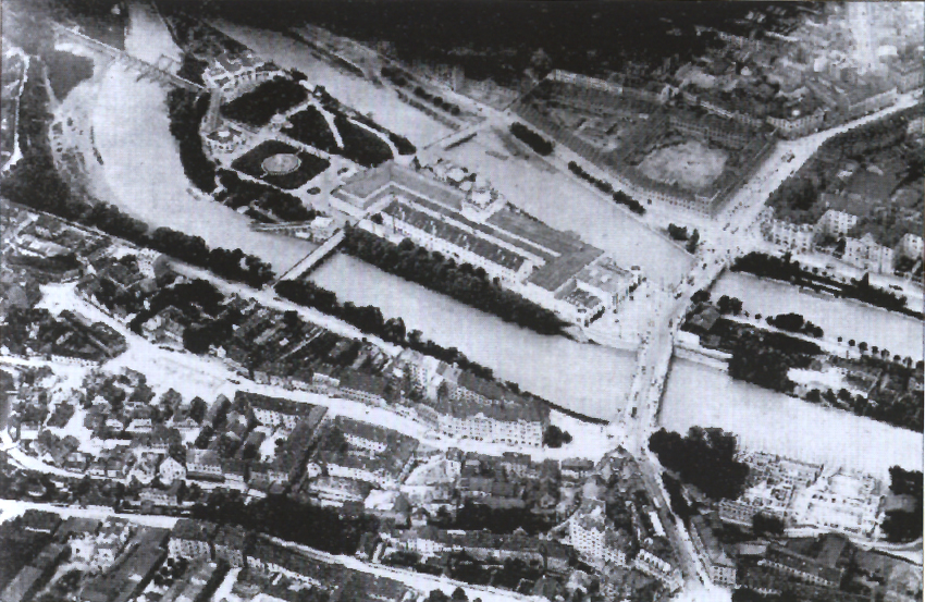 Aerial view of the "Museumsinsel" island in Munich. The 1898 photograph shows the longish building of the former Isarkaserne barracks which is closely surrounded by exhibition buildings. The trapezoid building site above the island is the former Schwere-Reiter-Kaserne (cavalry barracks), where the german patent office buildings are situated today.